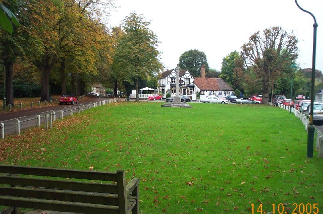 Letchmore Heath. Viewed looking northwards across The Green towards the Three Horseshoes public house. Unfortunately the village pond was being dredged at the time of the photography and was surrounded by unsightly fencing.